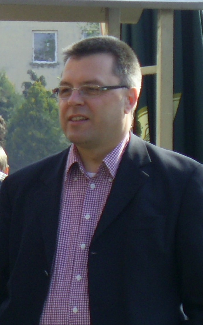 Bernward Küper, Mayor of Naumburg (Saale) since 2007